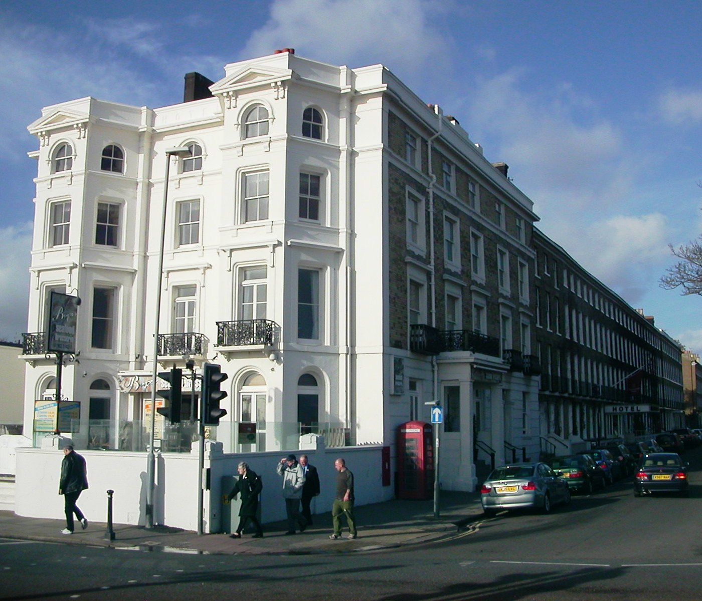 Chatsworth Hotel, The Steyne, Worthing, West Sussex, England. A four-storey terrace of houses built in about 1807; later became the Steyne Hotel, and now named the Chatsworth Hotel. Listed at Grade II by English Heritage (IoE Code 433054)